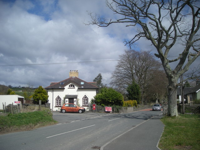 Betws Bledrws The small village of Betws Bledrws lies three miles from Lampeter on either side of the A485. It comprises two parts: Bro Deri, a row of council houses in the north of square SN5951 and the village proper shown here. The white building is New Lodge, built in c.1840 to the design of Charles Cockerell, who also designed the house whose gate it guarded, Derry Ormond Park (demolished in 1953). Cockerell was also responsible for the designs of St. David's College (now the University of Wales, Lampeter) and Derry Ormond Tower.